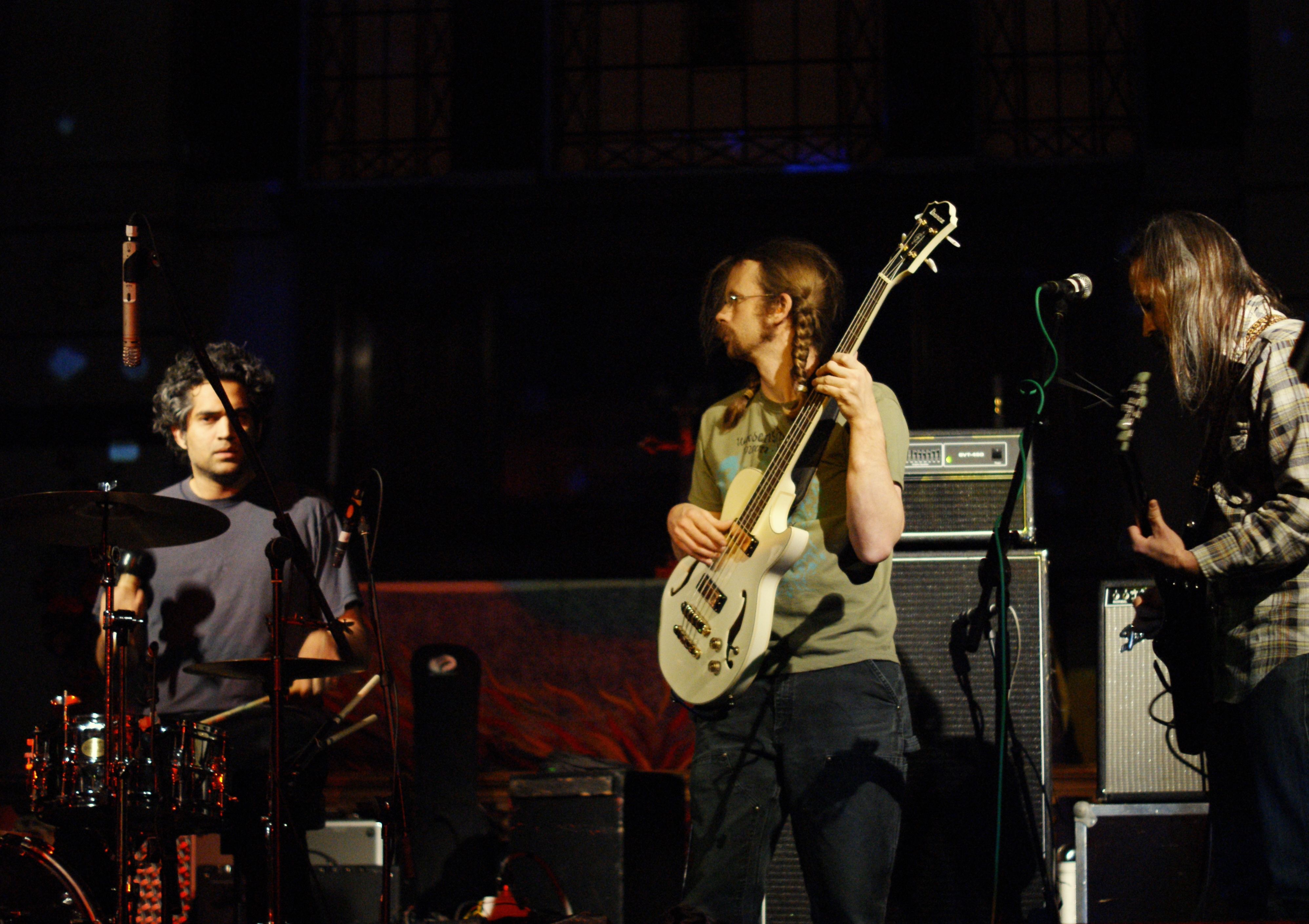 Wooden Shjips at St Philip's Church, Salford, on Friday the 10th of December 2010.